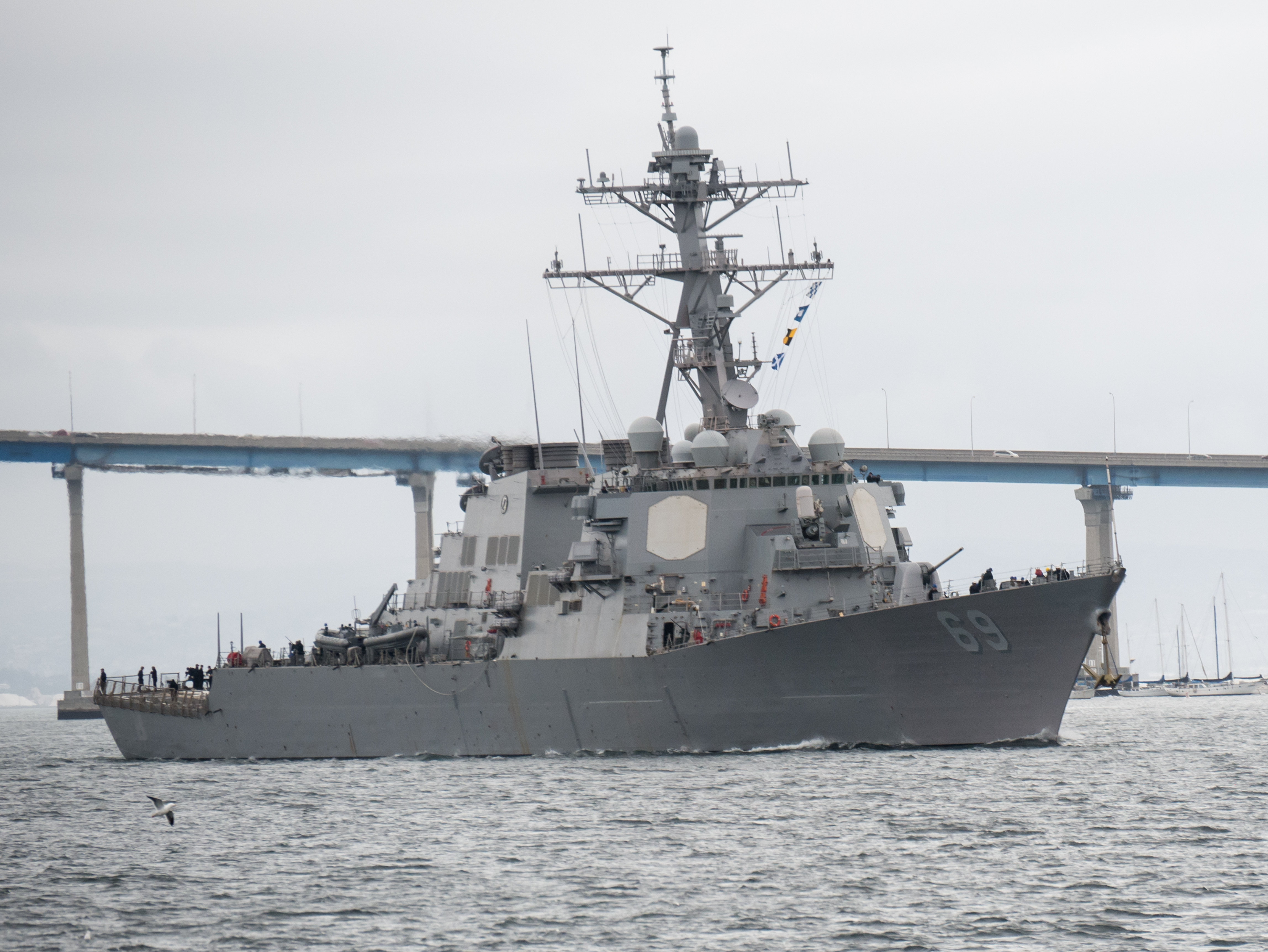 USS Milius in San Diego bay, February 7, 2017